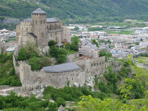 Notre Dame de Valère in Sion, Switzerland.